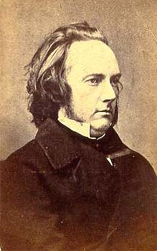 Portrait of John Campbell, 9th Duke of Argyll, the Governor General of Canada (1878-1883)